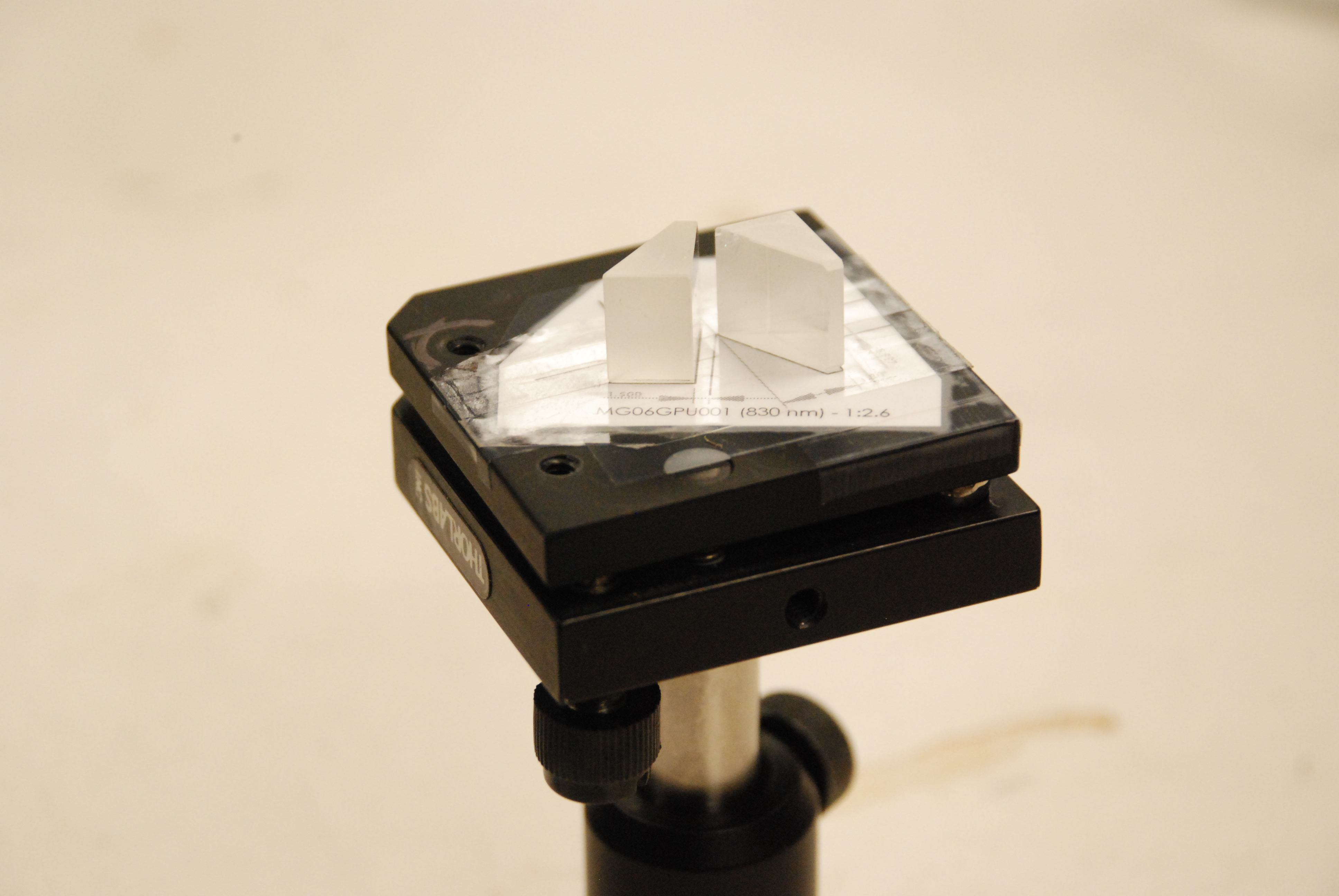 Anamorphic prisms pair used for atomic physics experiments.